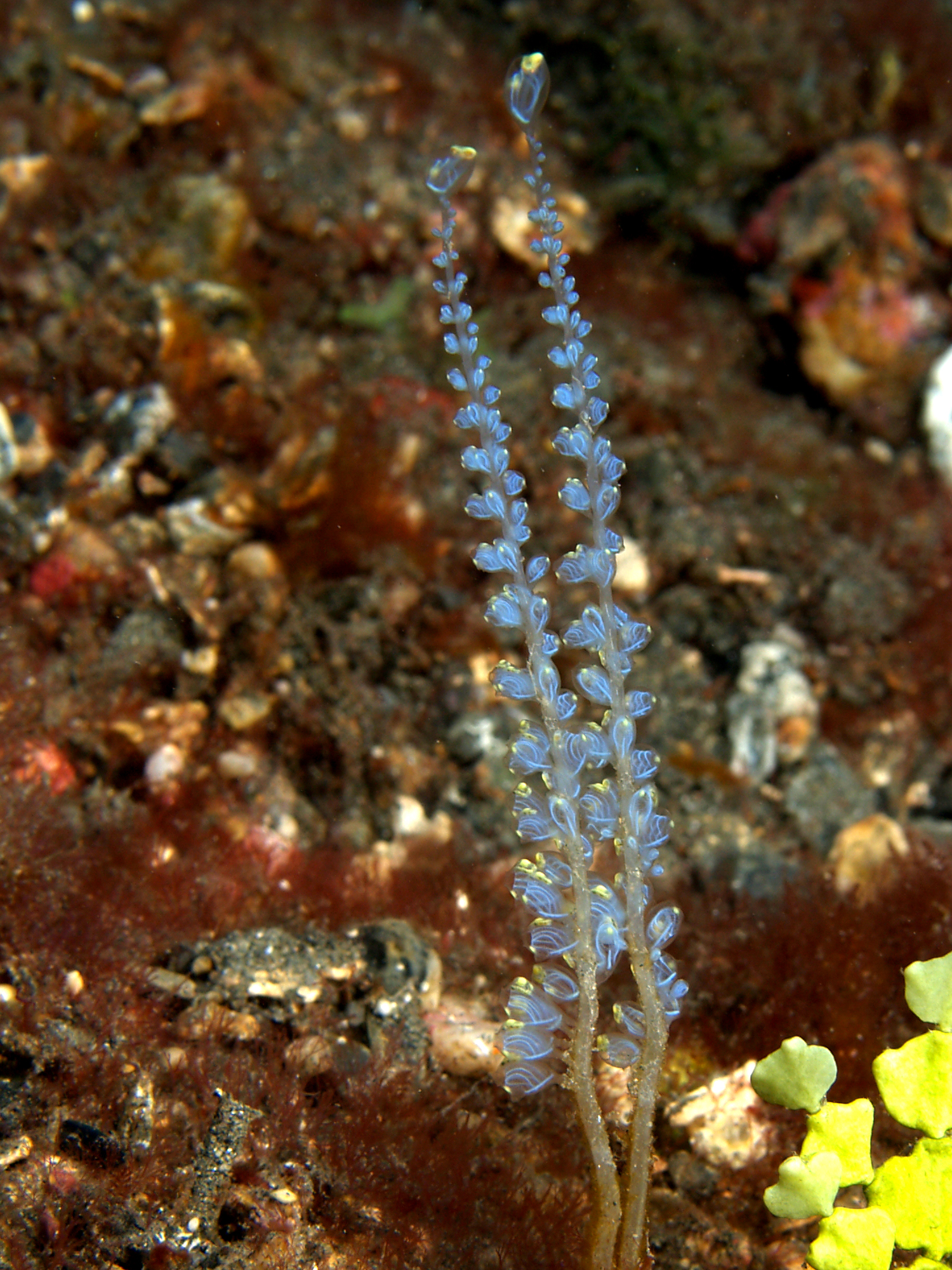 Perophora namei (Phlebobranch) tunicates